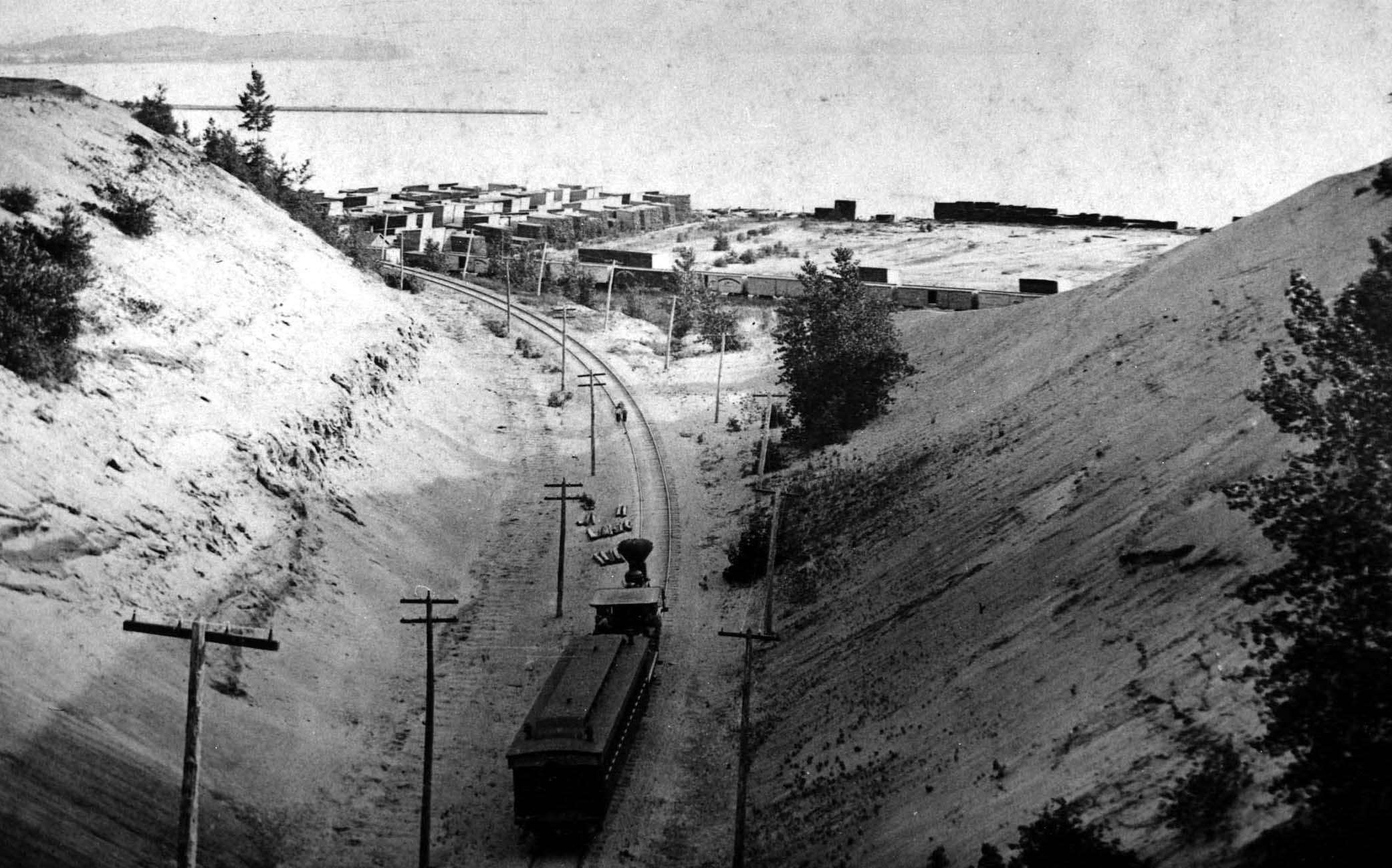 The historic image shows a train pulled by a steam locomotive on a track going through a deep cut into sand (under North Avenue, circa 1860-1880) deposited into Lake Vermont or the Champlain Sea at the end of the last glaciation. There are utility lines and poles along the track and lumber on the pier extending into Lake Champlain. The breakwater is visible. Some bedding is exposed in the sand.